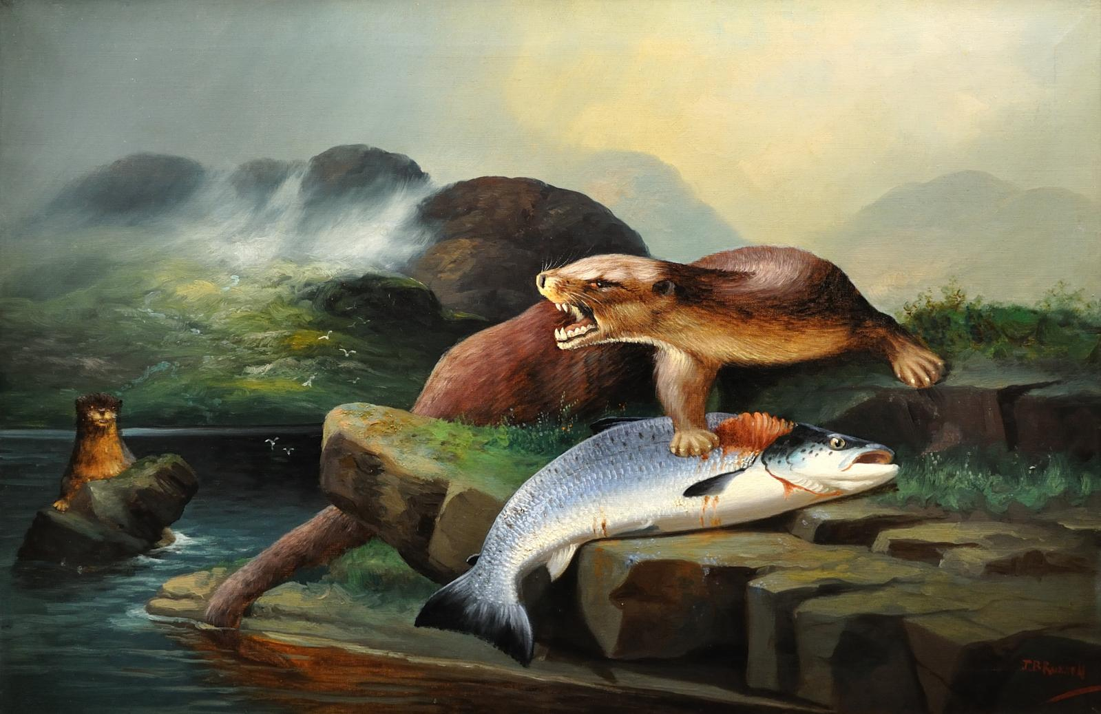 Otters with catch Signed bas droite Oil on Canvas 74cm x 49cm